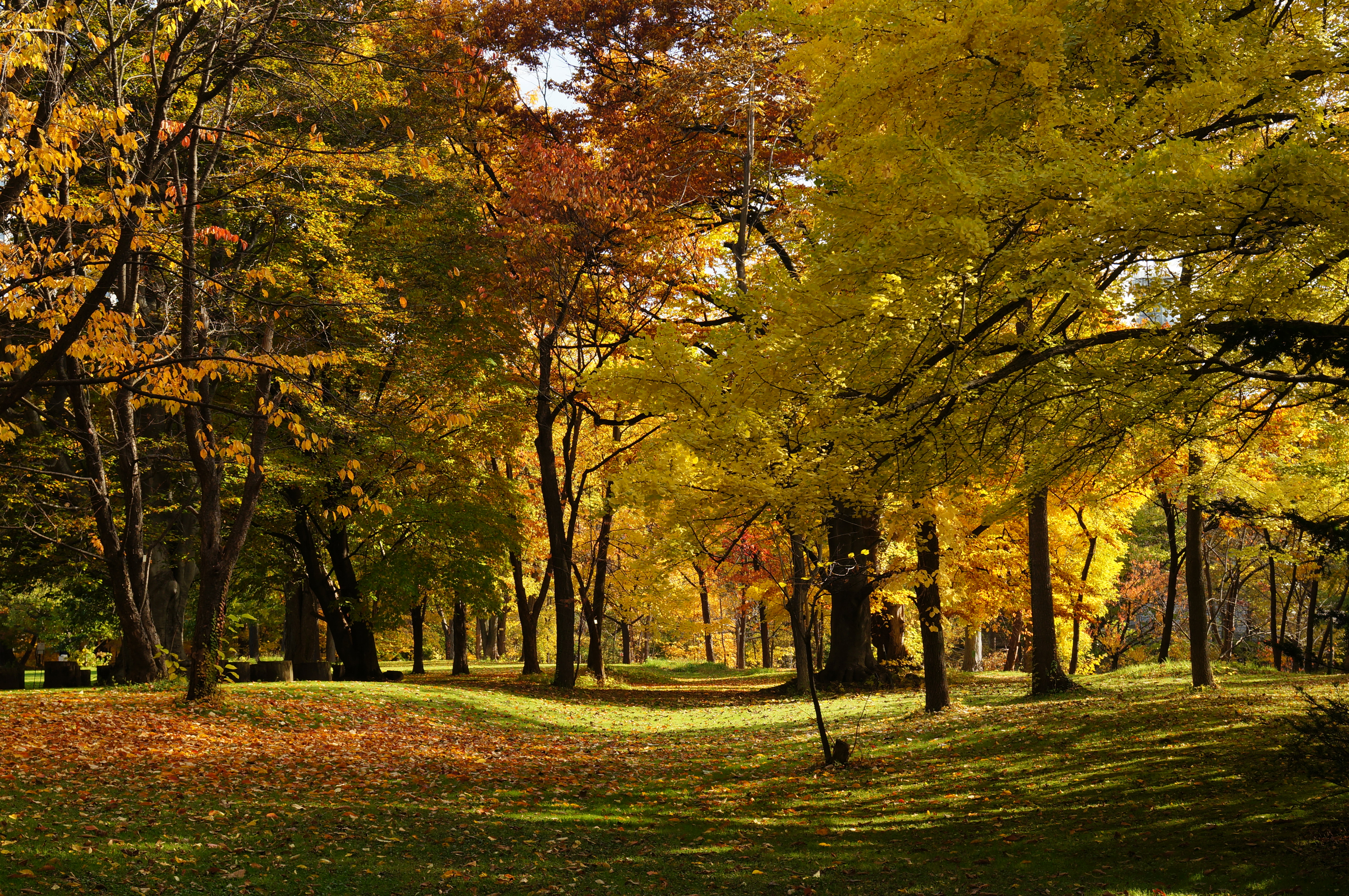 At Hokkaido University Botanical Gardens in Sapporo, Hokkaido prefecture, Japan.